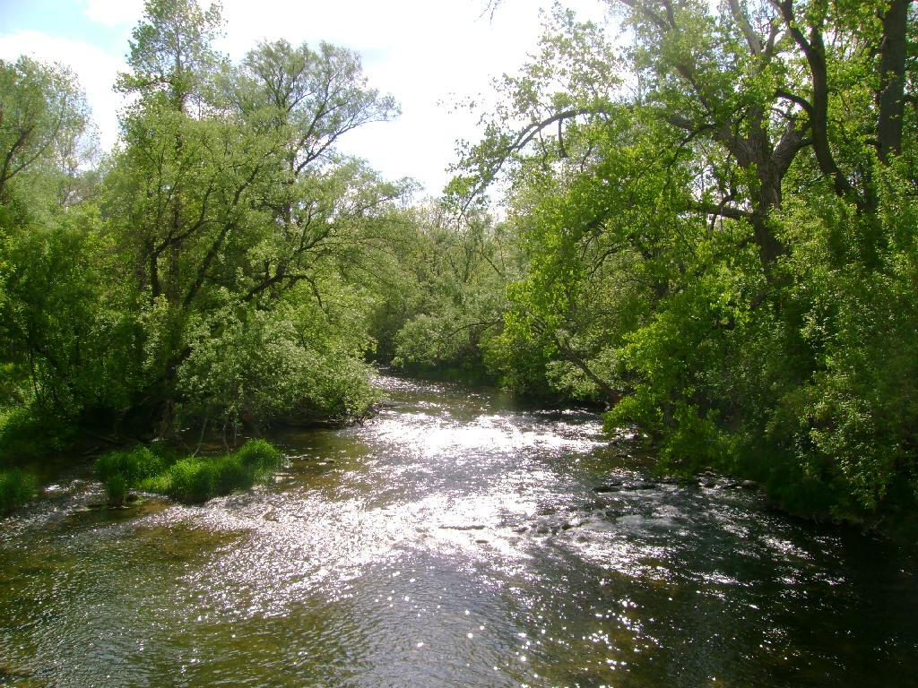 Oatka Creek in Wheatland 5/22/08